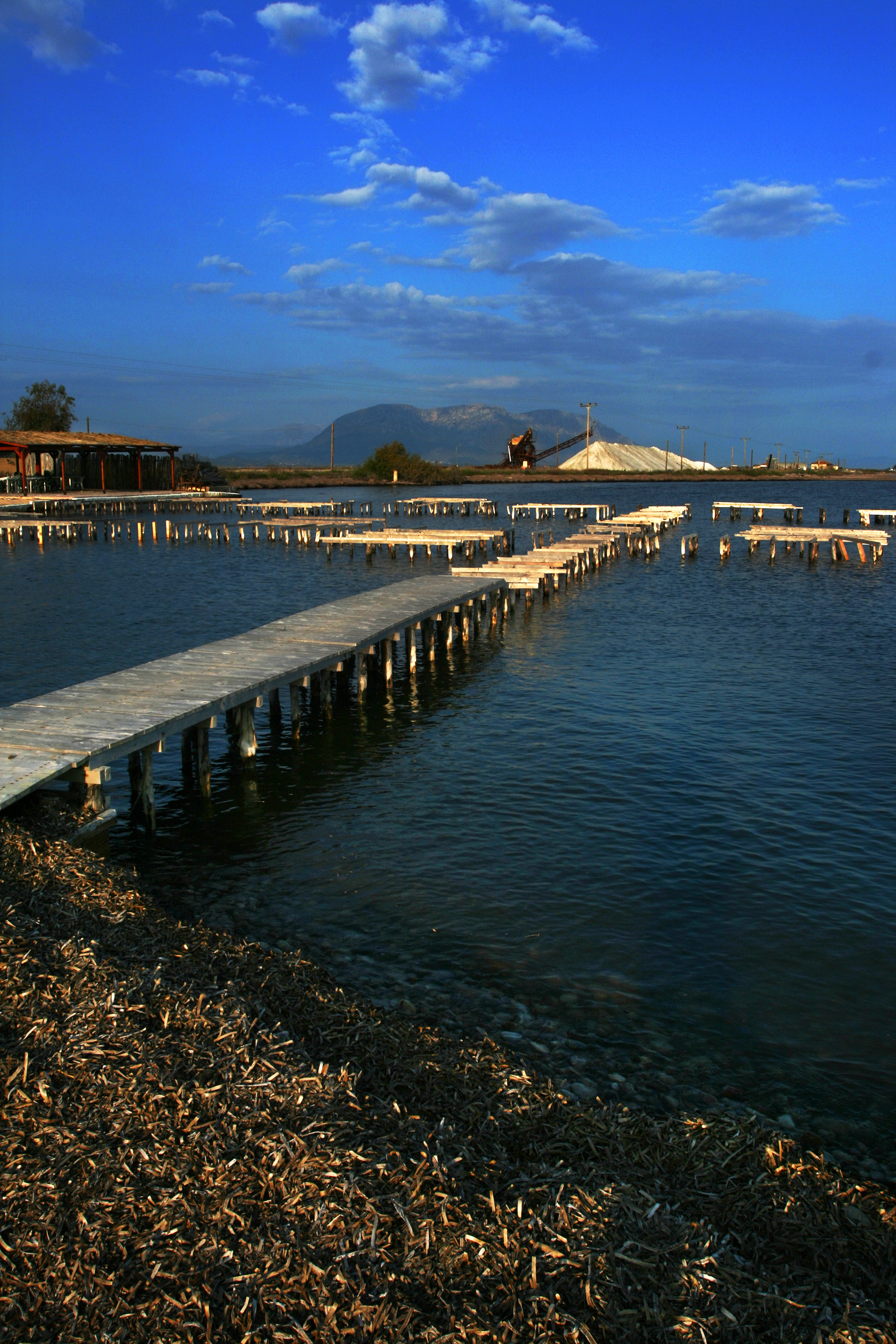 This is a photography of Natura 2000 protected area with ID GR2310001